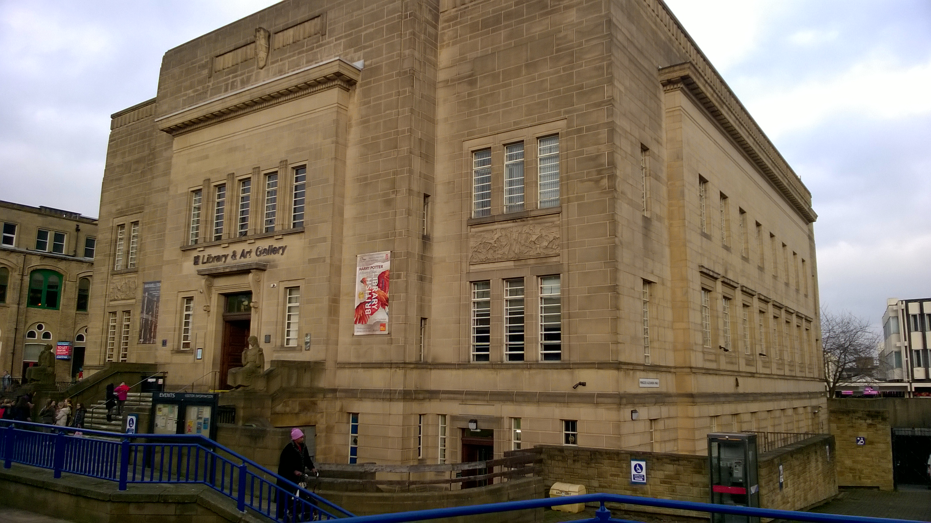 Huddersfield Library and Art Gallery